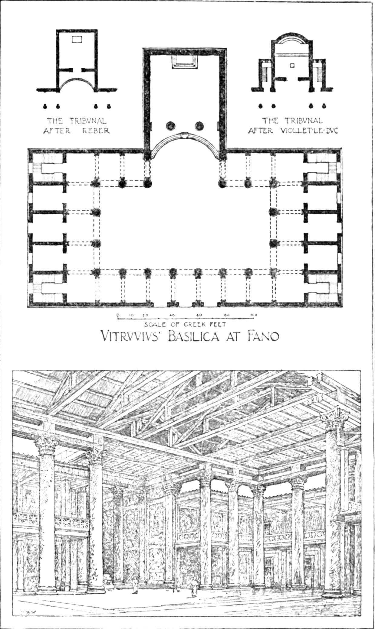 Vitruvius's basilica at Fano, as described in his Ten books on architecture